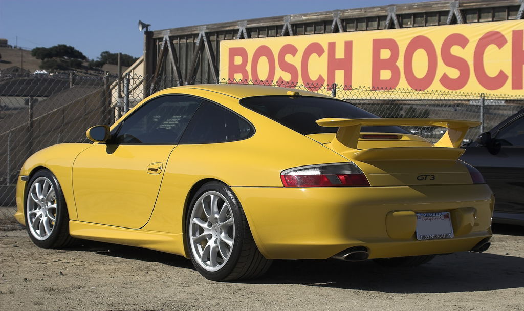 Yellow Porsche 911 GT3 type 996 second series, at Laguna Seca Raceway.jpg